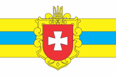 Flag of Rivne Oblast, Ukraine